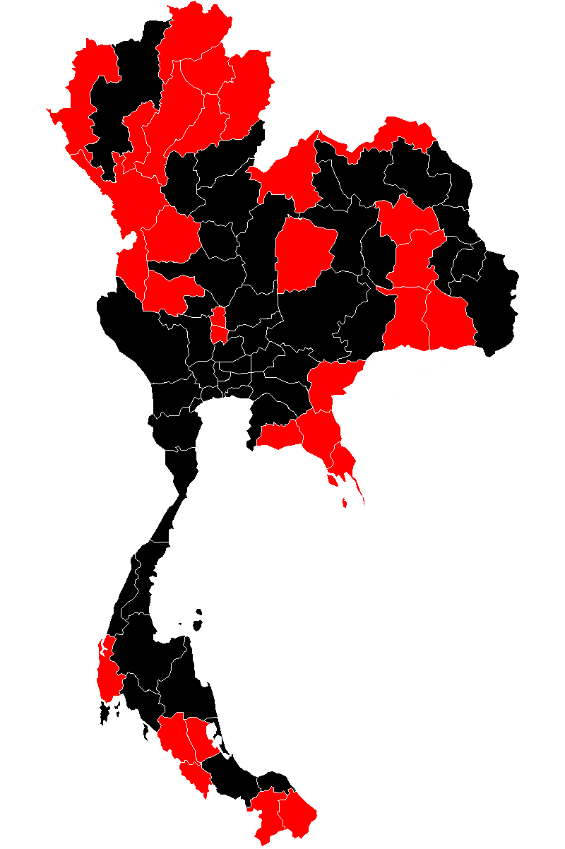 A map of the infected provinces of Thailand were the H1N1 flu of 2009 is found.